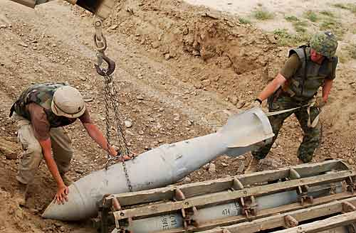 Members of the Canadian Army prepare to lower Russian bombs out of a MLVW all-purpose vehicle into a ditch for future detonation. The bombs, which were lying in a trench behind a Russian dormitory outside the perimeter of Kandahar Airport in Afghanistan, were discovered by U.S. Army 53rd Explosive Ordnance Disposal members and Canadian Army personnel. Photo by Staff Sgt. Ricky A. Bloom, USAF